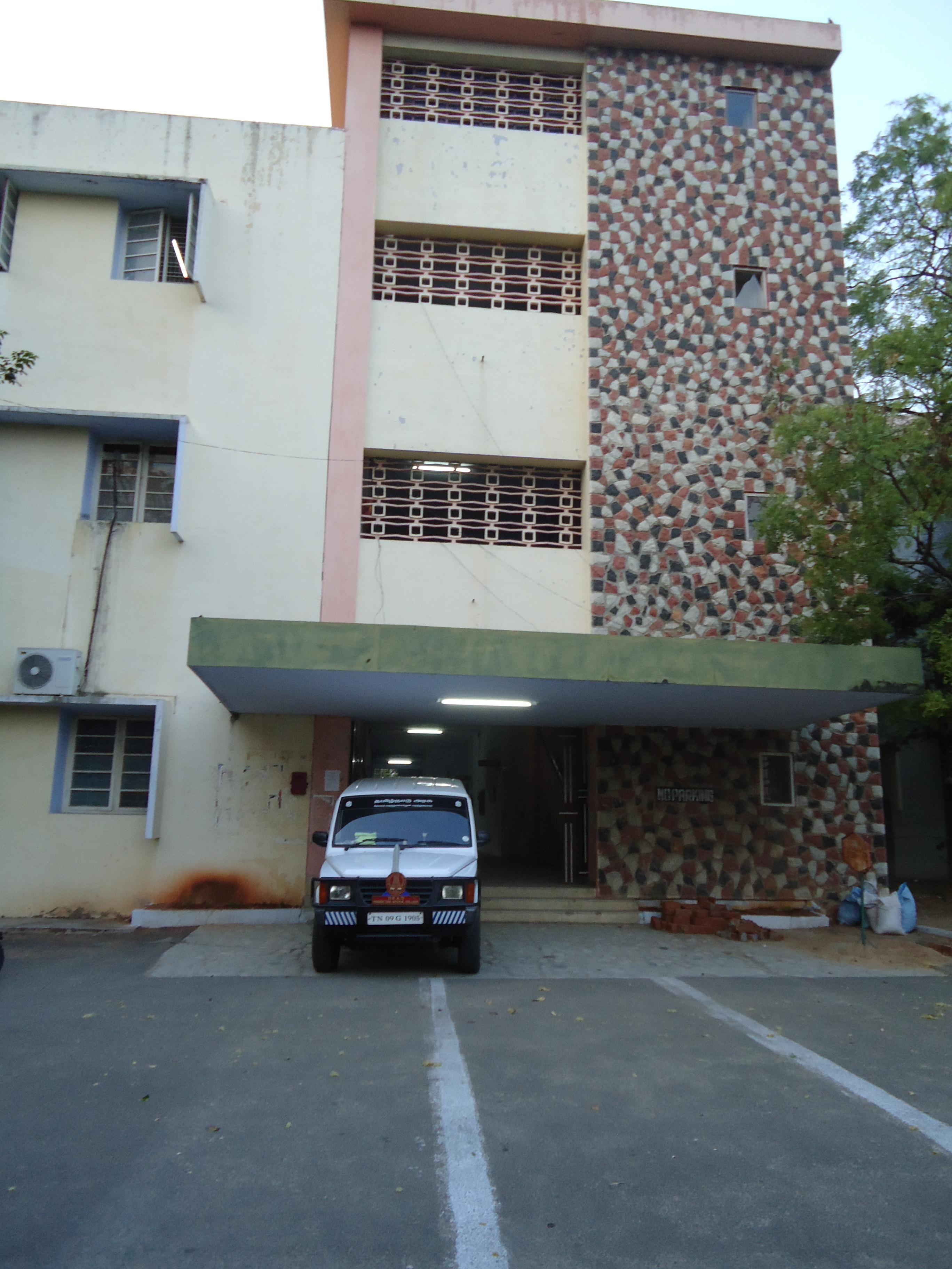 coimbatore medical college 2nd entrance to office and dean room